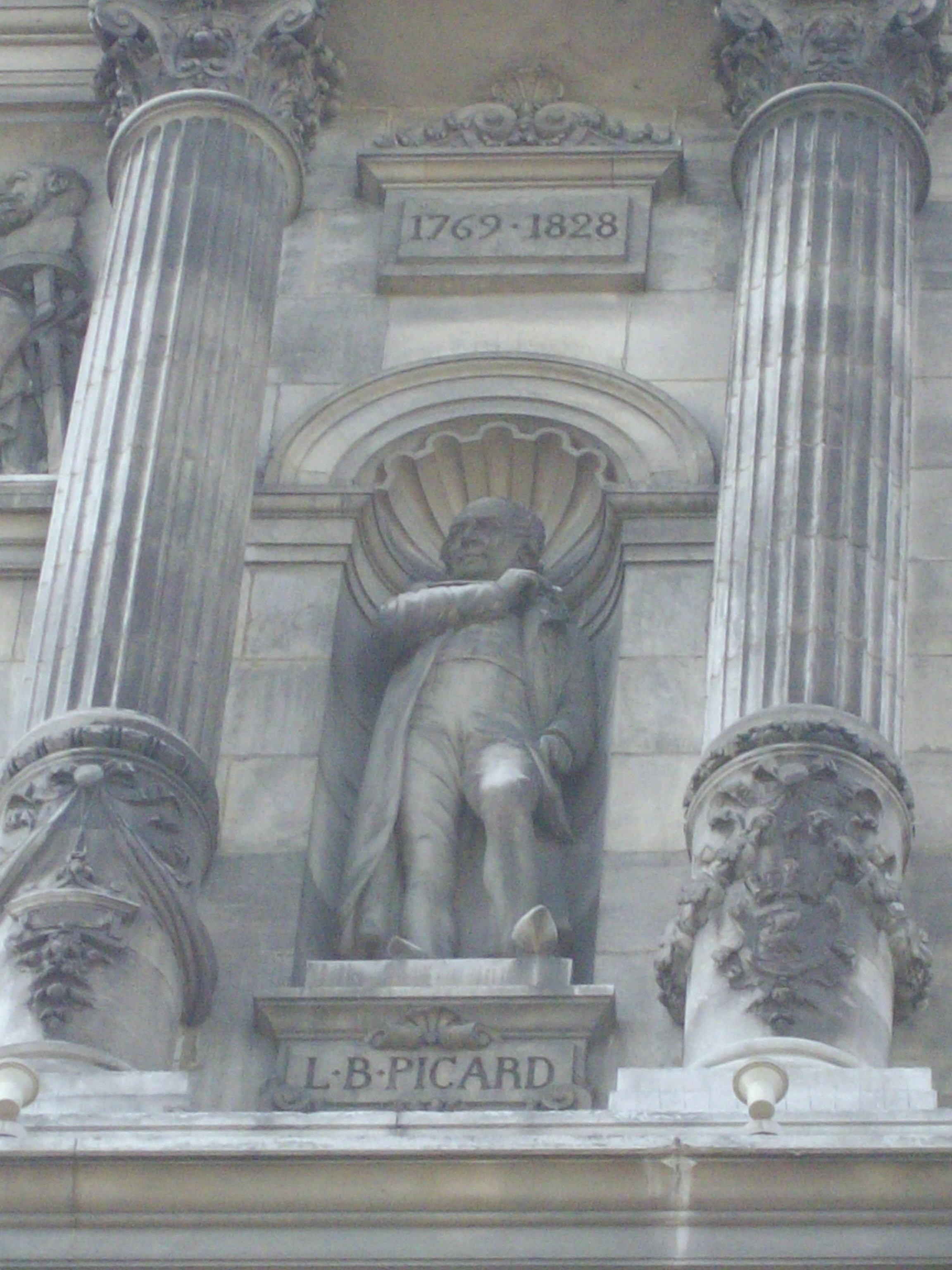 Statues of the City Hall in Paris, France